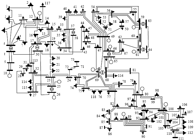 Node Network